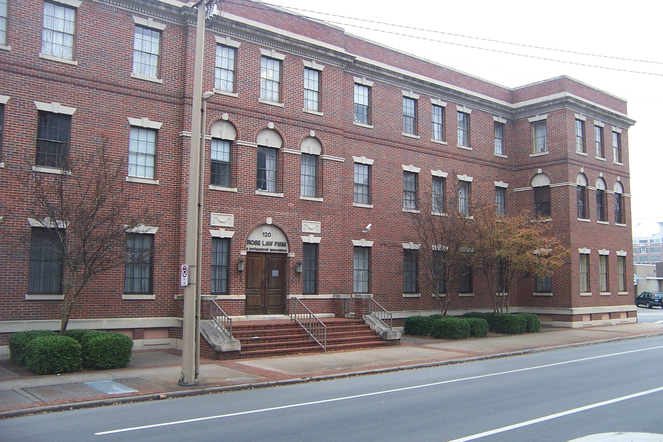 Rear, old entrance of Rose Law Firm in Little Rock, Arkansas.